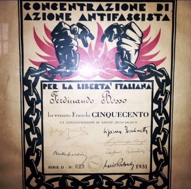 Certificate Concentration of action antifascist